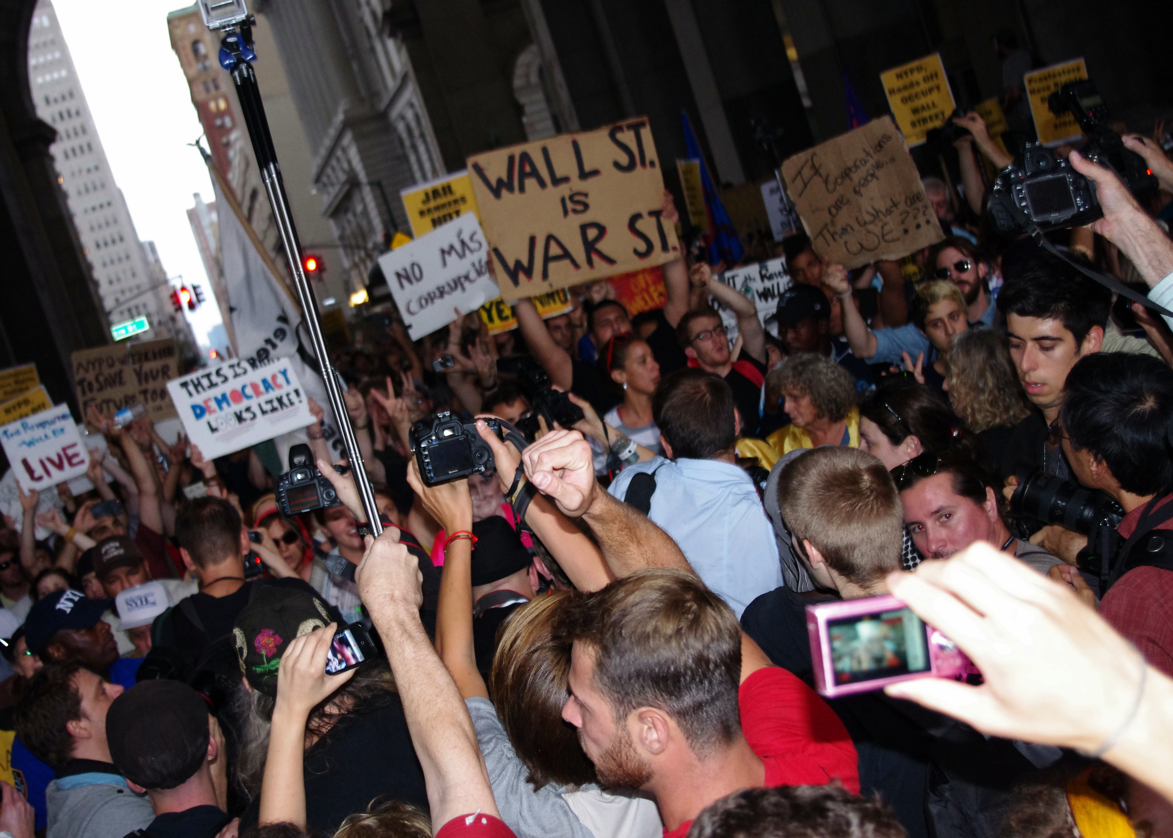 Friday, Day 14 of Occupy Wall Street - photos from the camp in Zuccotti Park and the march against police brutality, walking to One Police Plaza, headquarters of the NYPD.